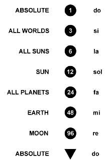 The Ray of Creation.